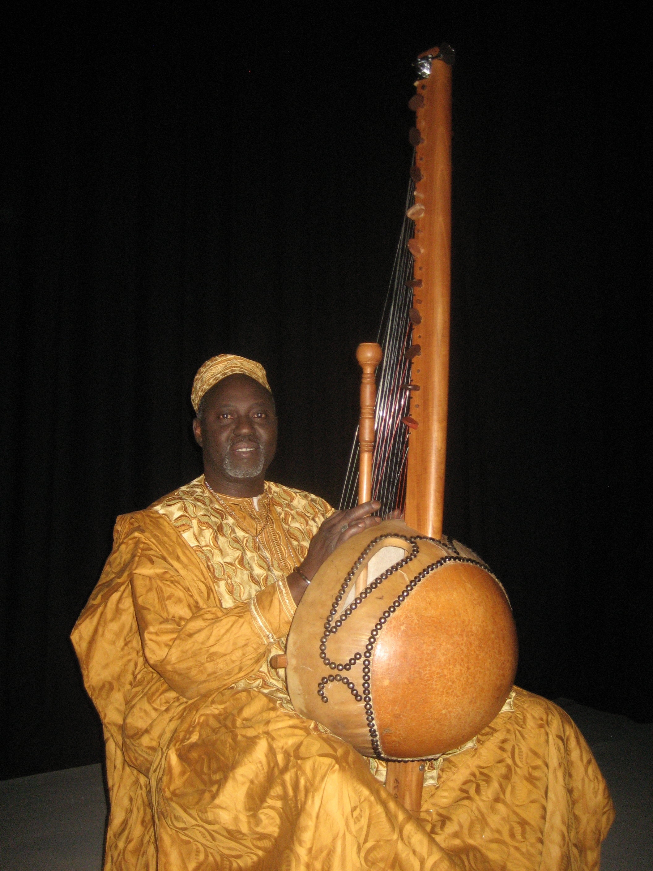 Lamin Kuyateh and his kora (The Hague, the Netherlands, Jan. 2016)